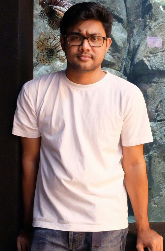 this is Mr Freddie Aziz Jasbindar, the founder of